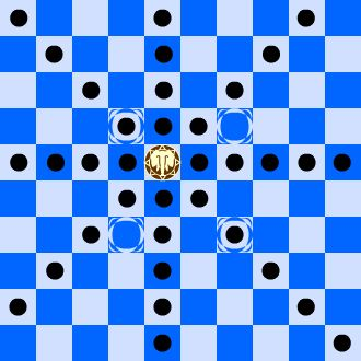 Diagram of the moves of an elephant in Barca board game